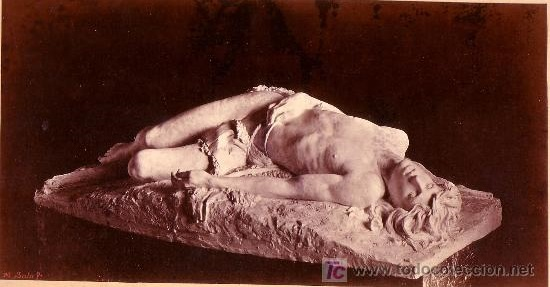 escultura antonio fabres